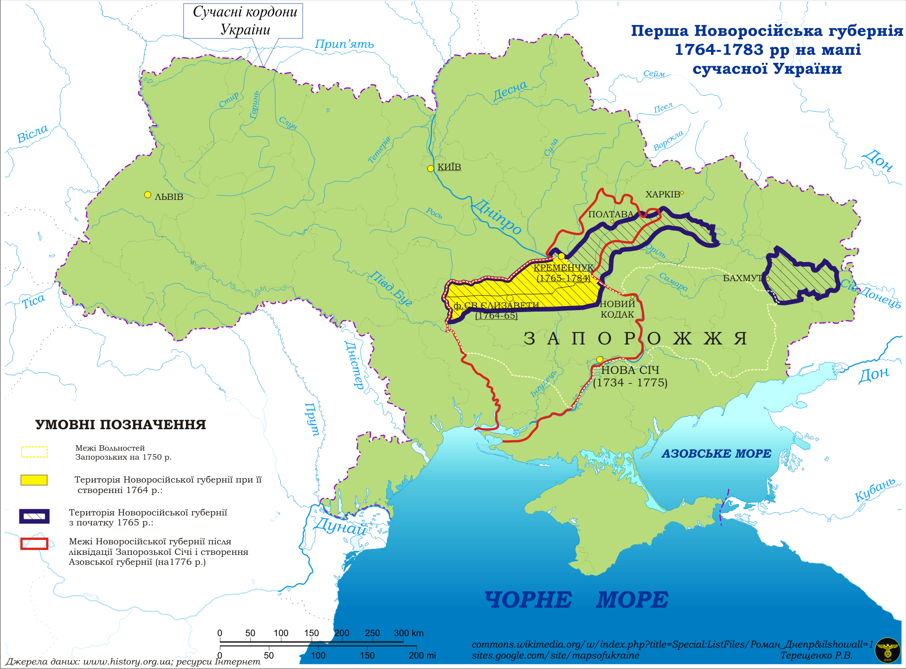 First Novorossiysk province in the 1764-1776